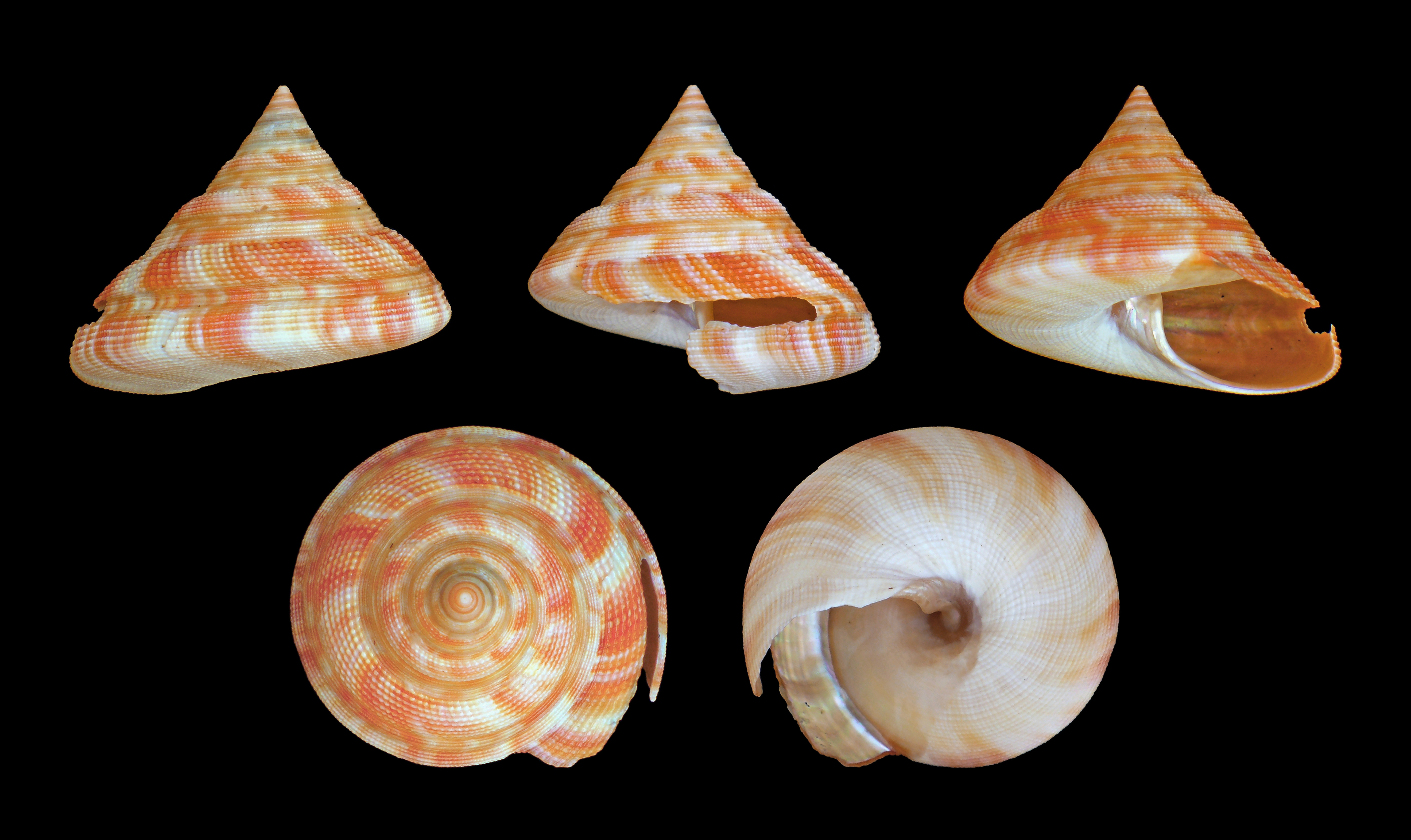 The Emperor's Slit Shell; Diameter 5.6 cm; Originating Eastern Chinese Sea, trawled in deep water (200m), 2005; Shell of own collection, therefore not geocoded.